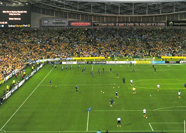 A Qantas jet does a fly past over the stadium before the Australia vs Uruguay World Cup Qualifier